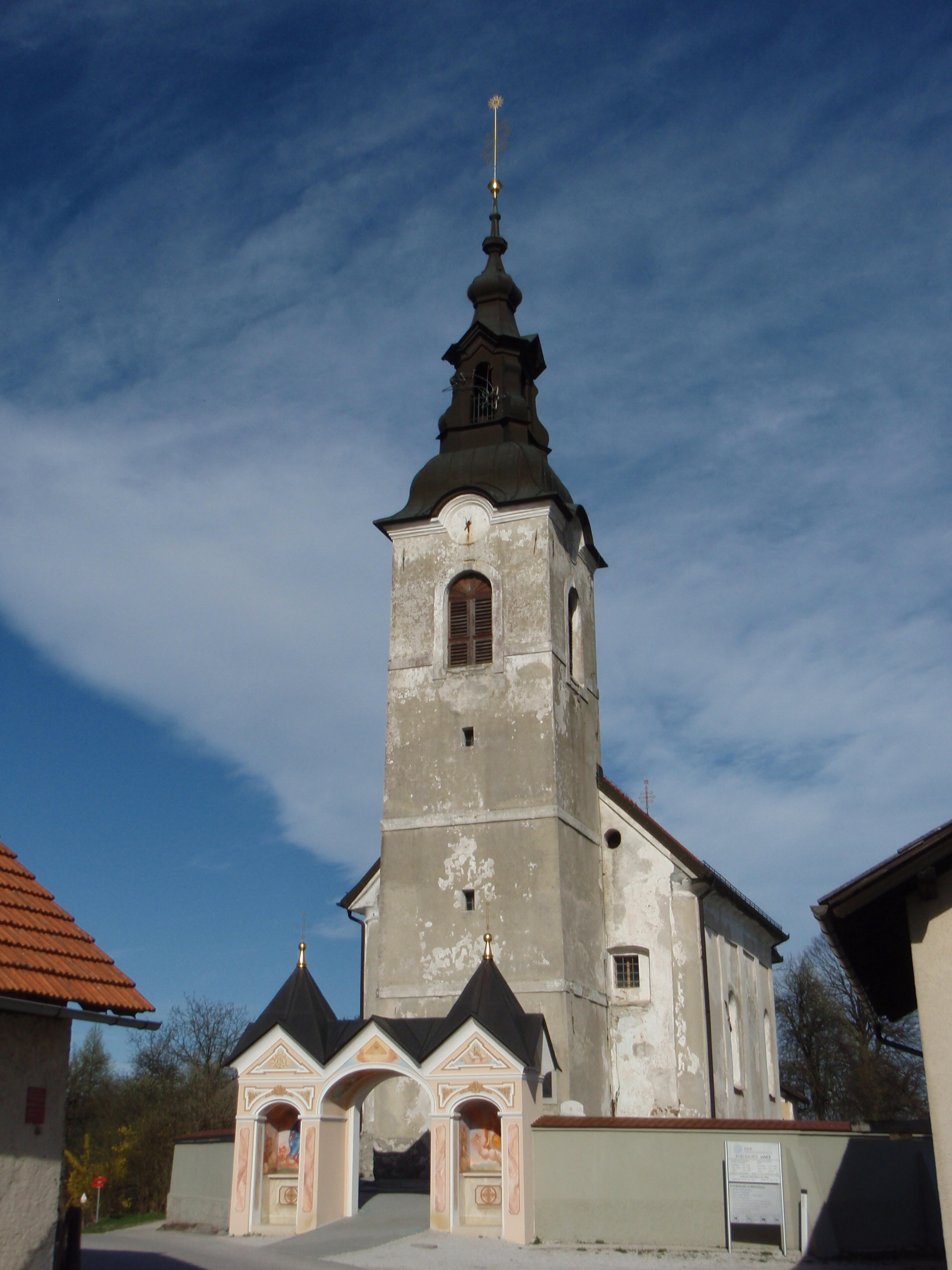 Janče, Slovenia.